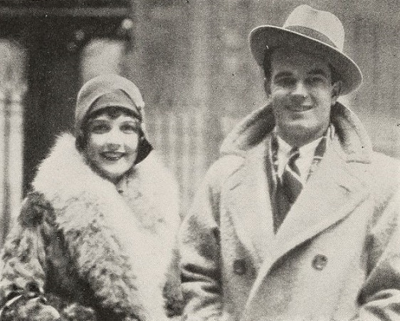 Sally Phipps e Mick Stuart